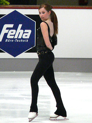 Danielle Kahle during her short program at the 2007 Nebelhorn Trophy.